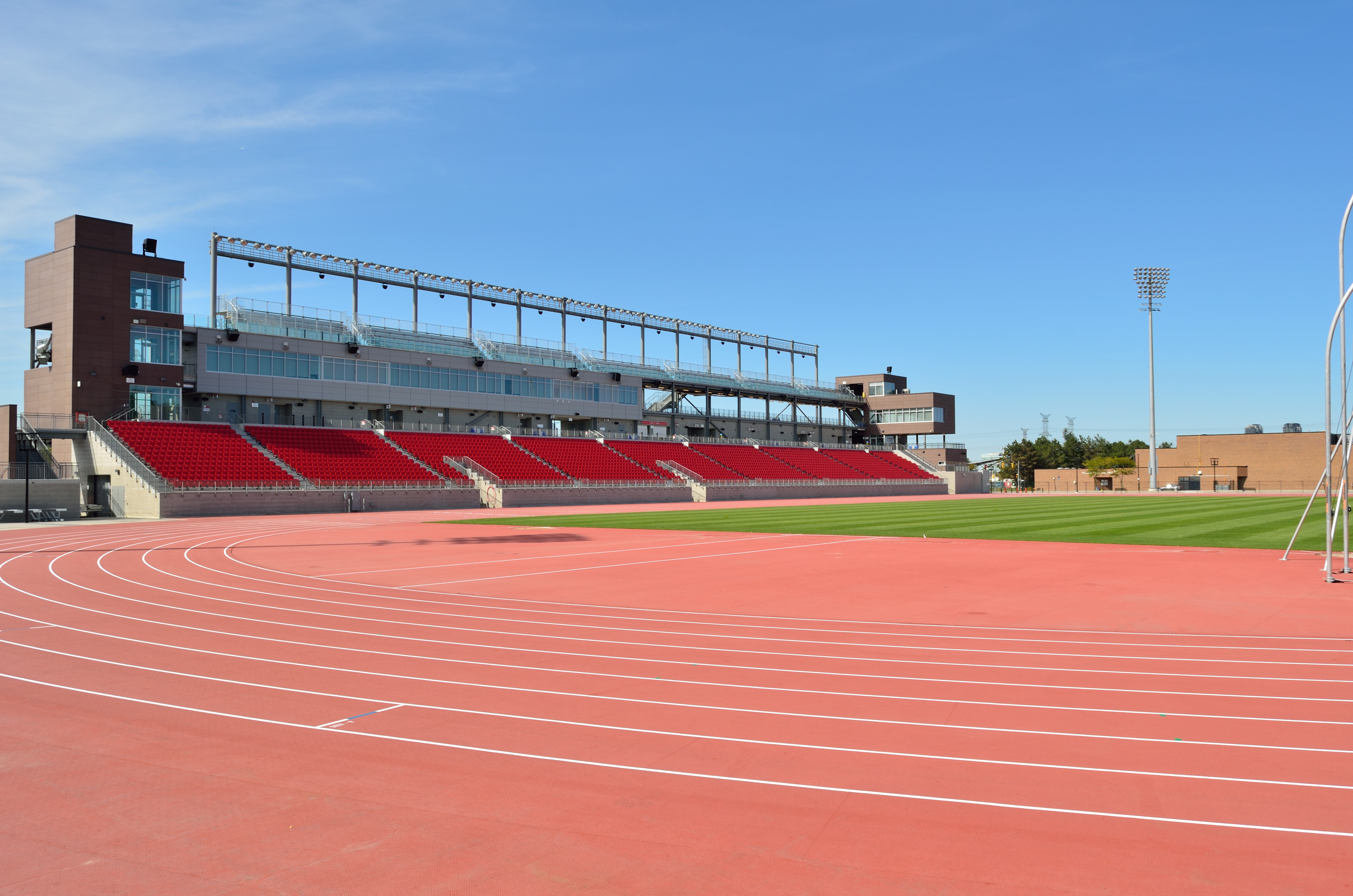 York Lions Stadium